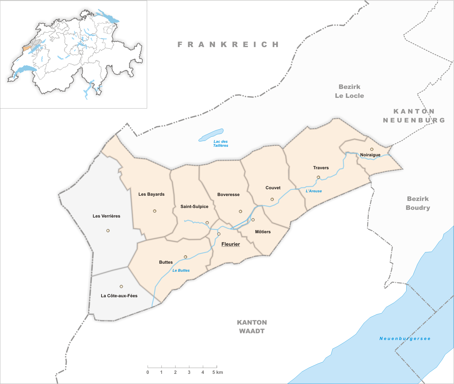 Municipalities in the district of Val-de-Travers until 2009